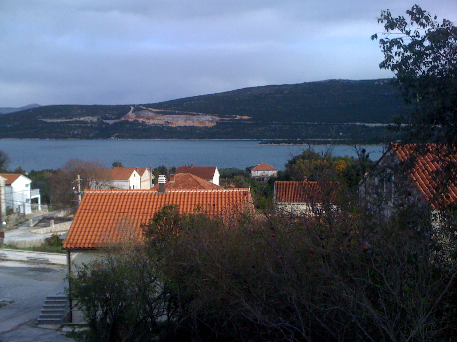 Duba Stonska